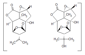 Picrotoxin, a poison. This is its chemical (line) structure. Chemical structure of picrotoxin High-resolution black/white .PNG made with WinChemDraw.